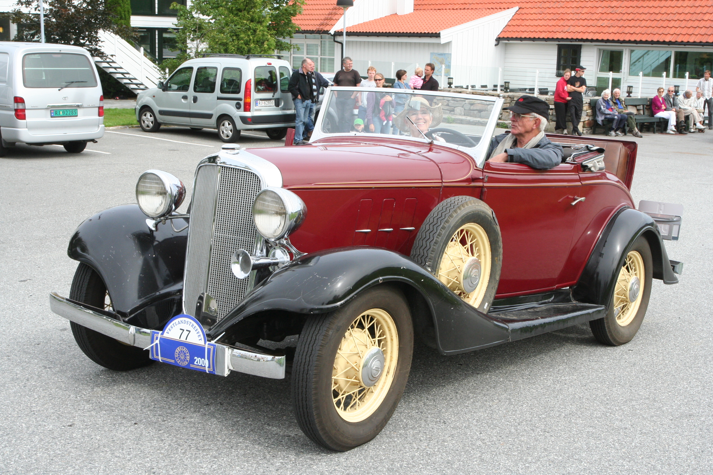 Captured at a Veteran-Car meeting on August 1, 2009 in Utstein, Norway. Ivar was the owner at the time. The outside jump seat was dubbed Moter-in-Law-Seat